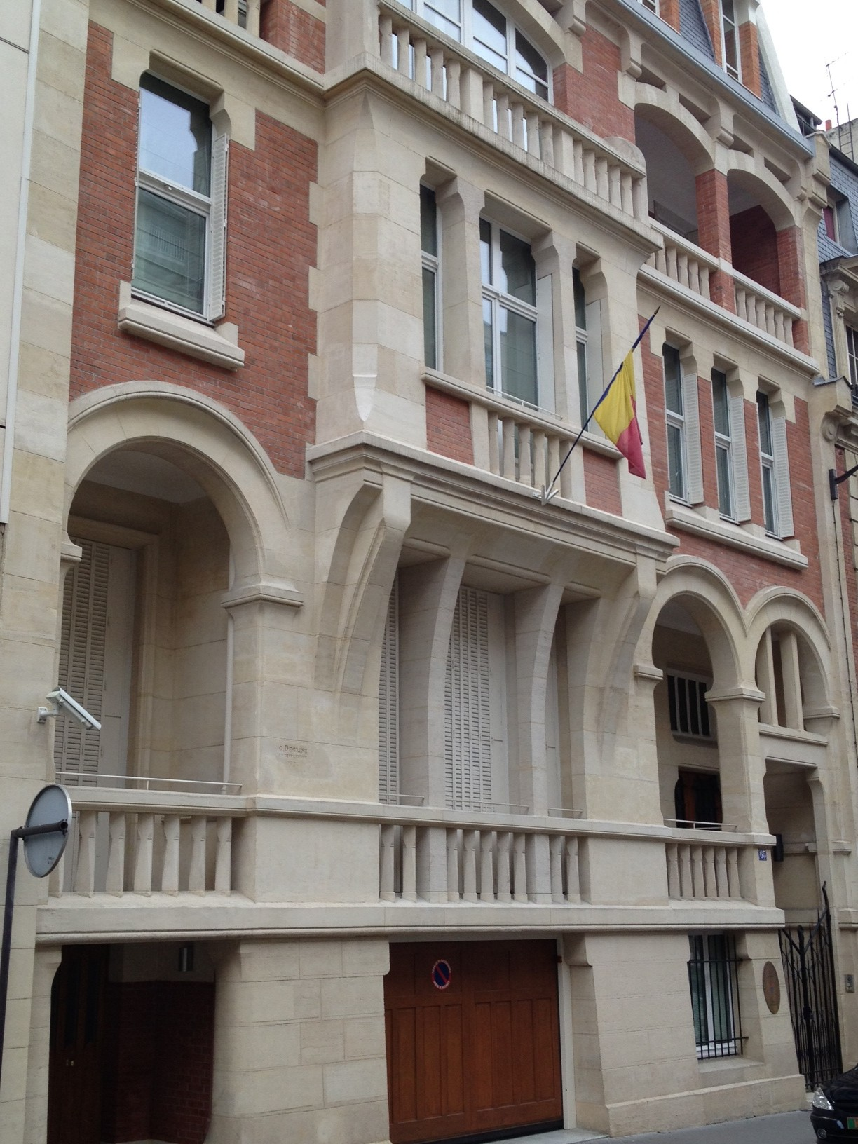 Embassy of Chad in Paris, France.